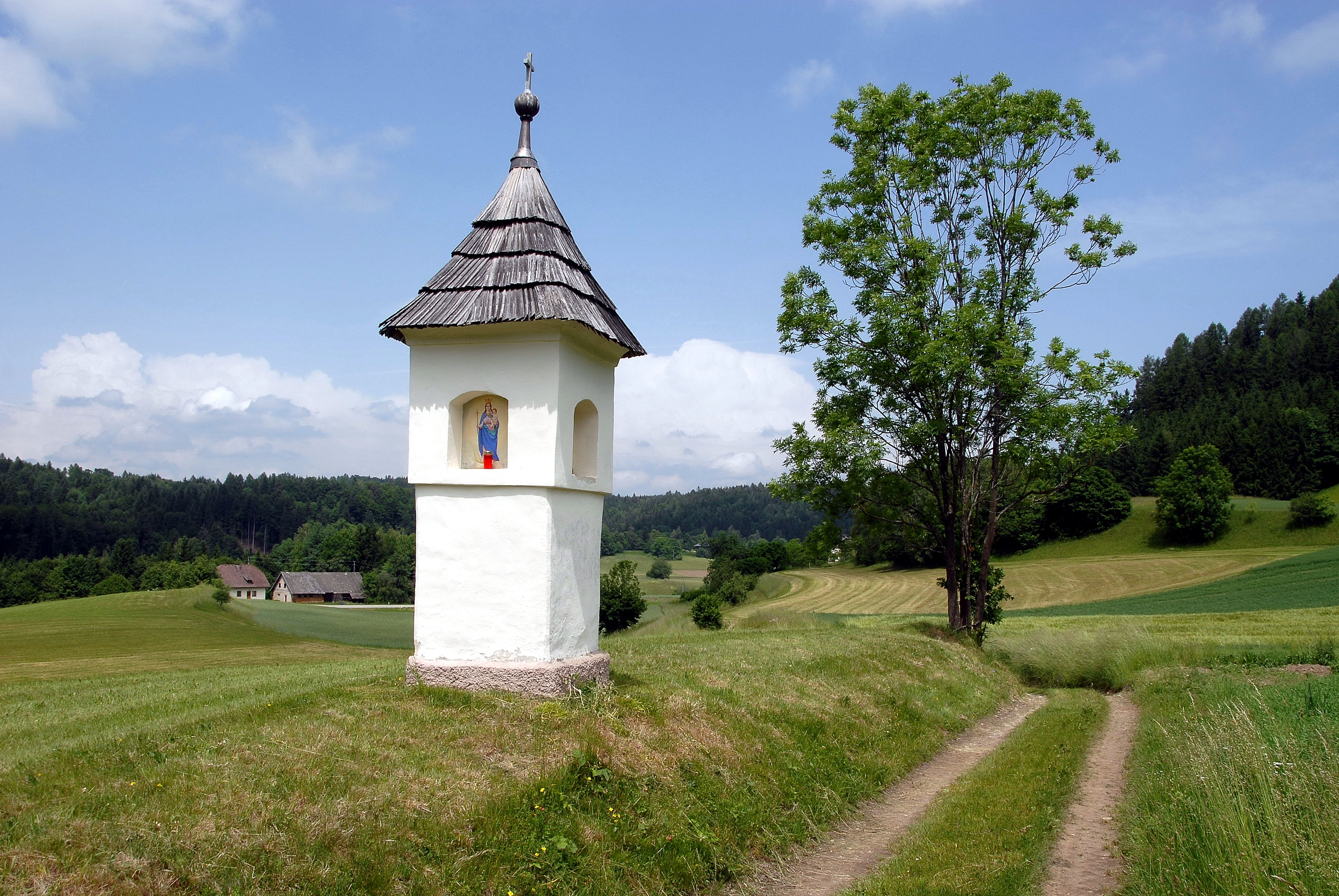 Wayside shríne in Saberda, municipality Maria Rain, district Klagenfurt Land, Carinthia, Austria, European Union